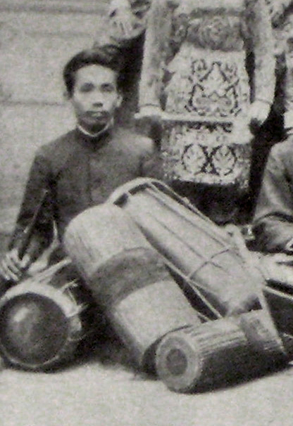 A theater group from Bangkok, Thailand (then Siam). Photo probably taken in Thailand prior to the ensemble's departure to Germany, where they performed in Berlin.